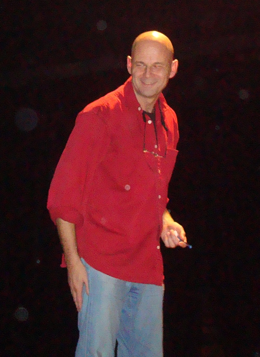 Aleksandar Štulhofer, a sexologist, during a seminar in Zagreb.